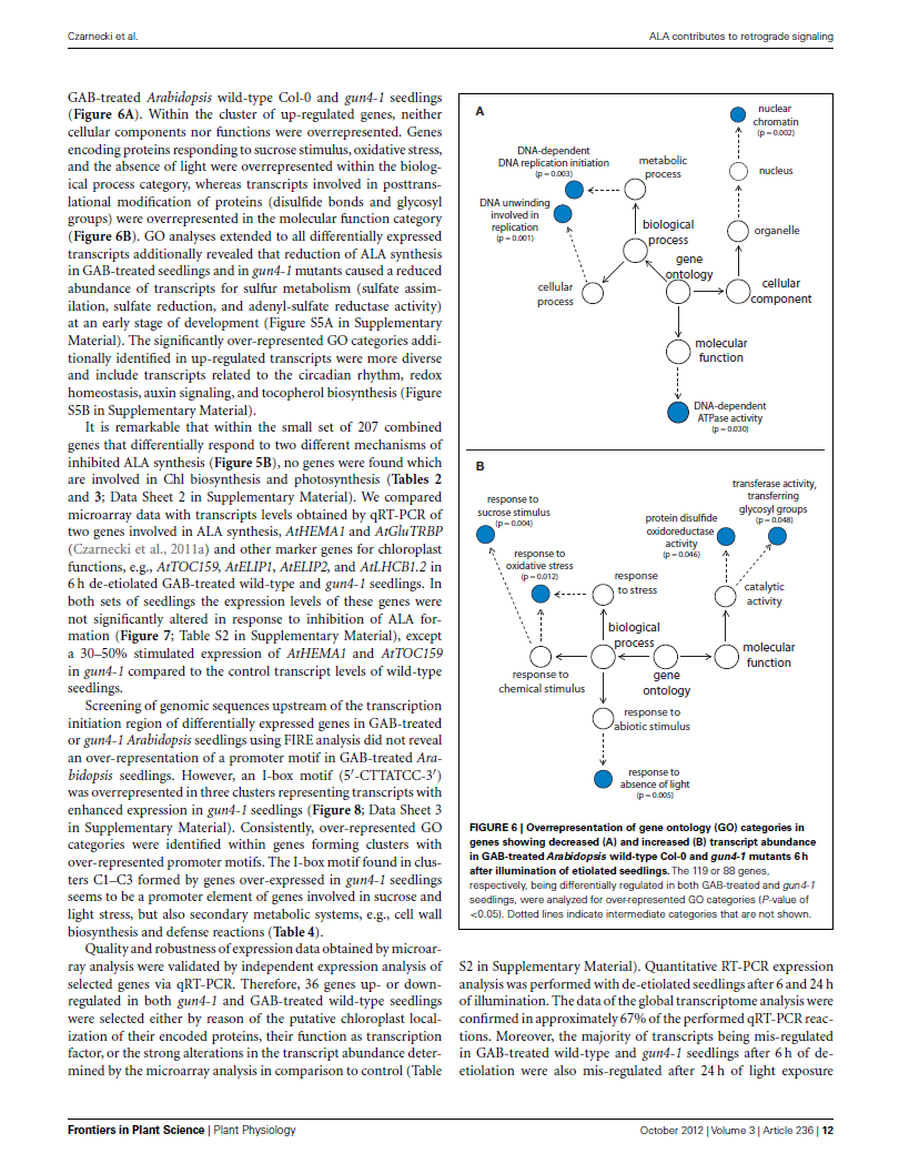 This is page 12 from the article titled Evidence for a contribution of ALA synthesis to plastid-to-nucleus signaling by Olaf Czarnecki et al., published in the open-access journal Frontiers in Plant Physiology, volume 3, number 236.